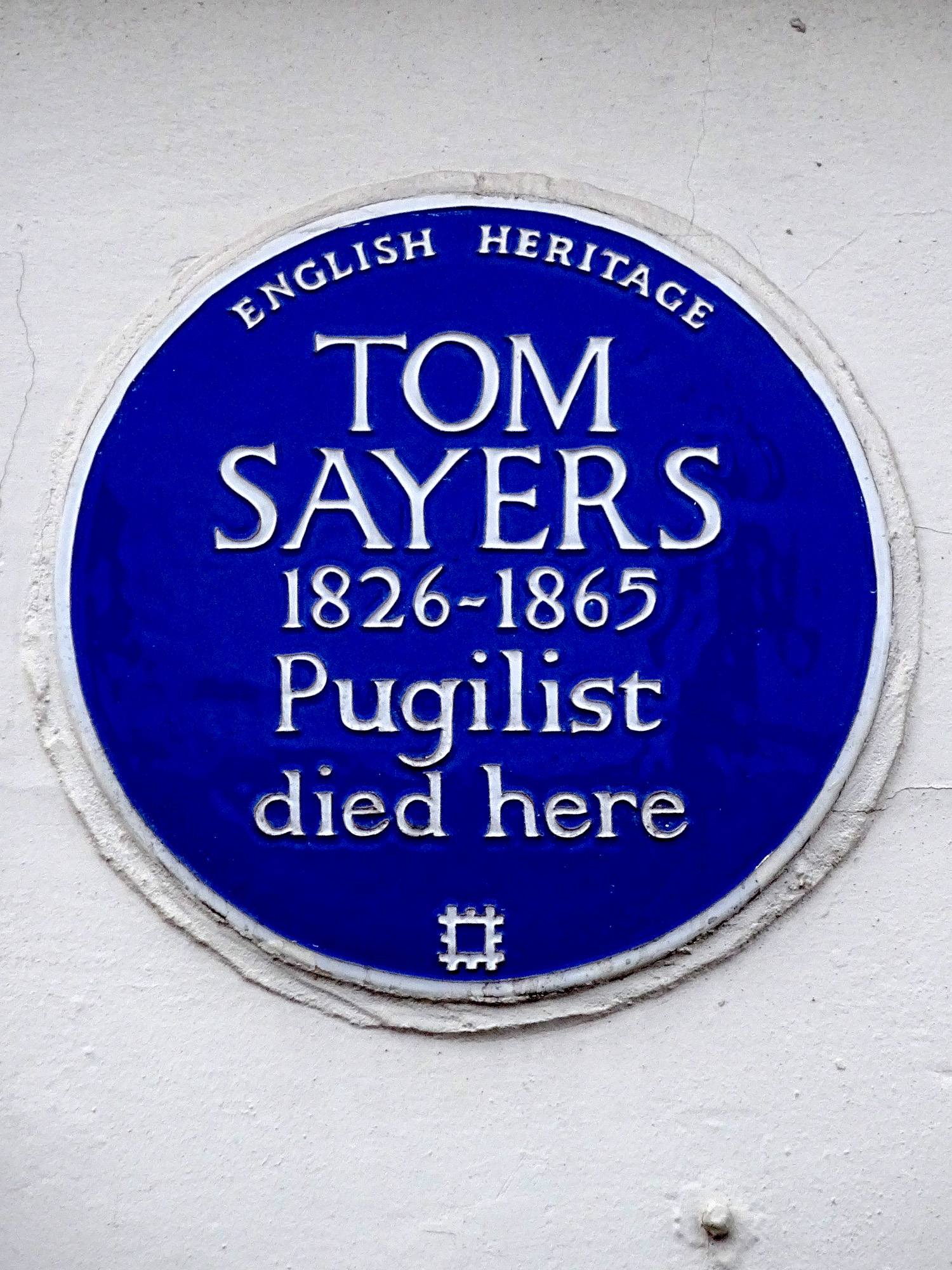 Blue plaque erected in 2002 by English Heritage at 257 Camden High Street, Camden Town, London NW1 7BU, London Borough of Camden